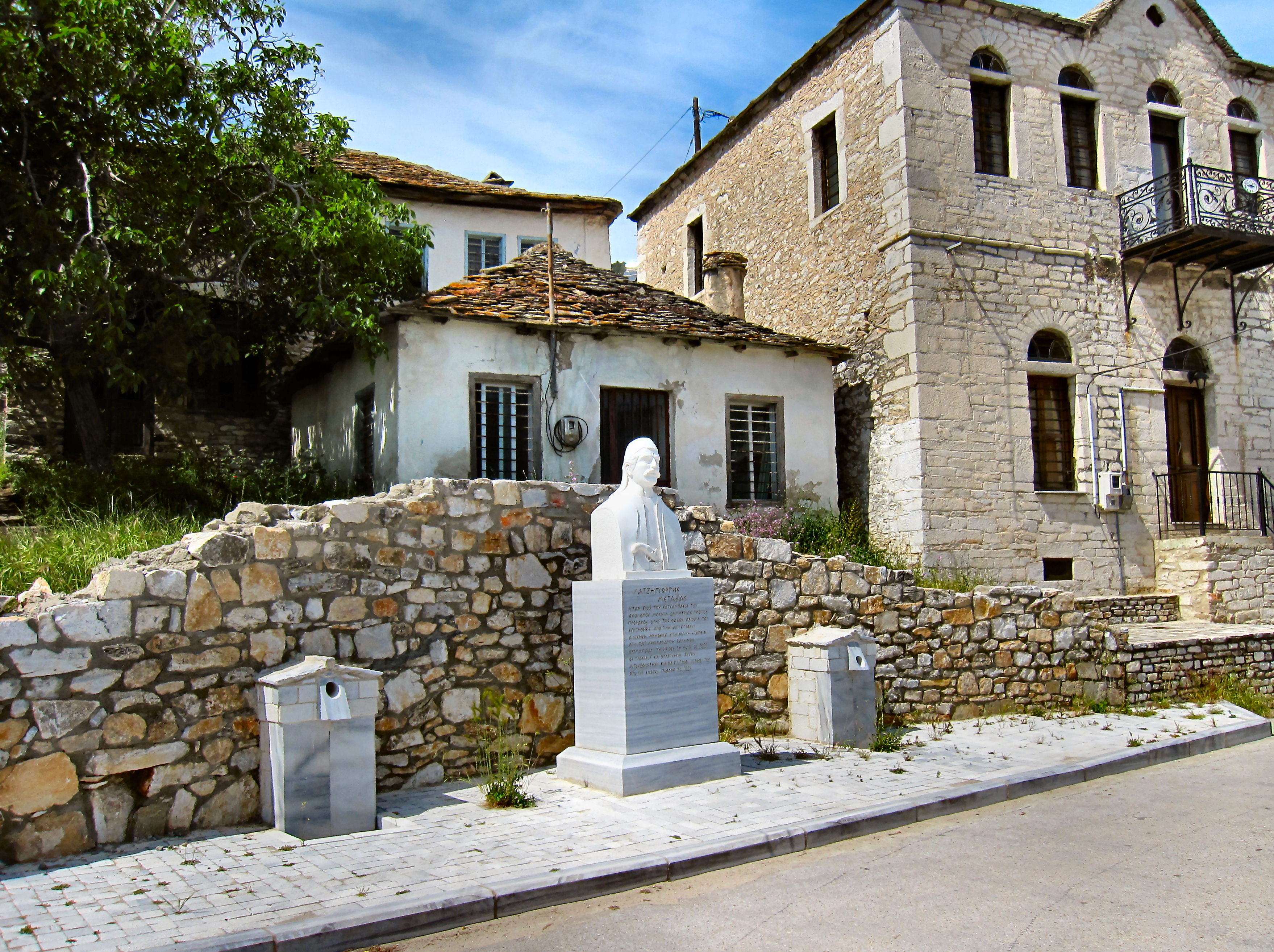 One of the many neglected old buildings in this remote village of Theologos in the Greek Island of Thassos.